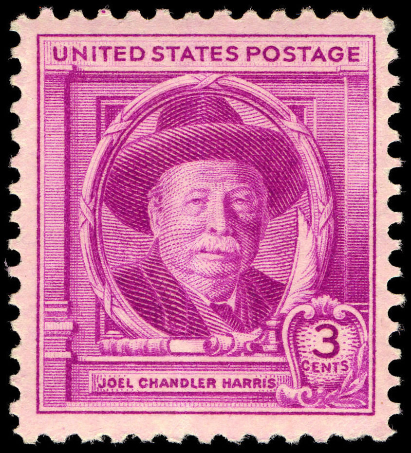 Joel Chandler Harris 3-cent 1948 issue U.S. stamp.